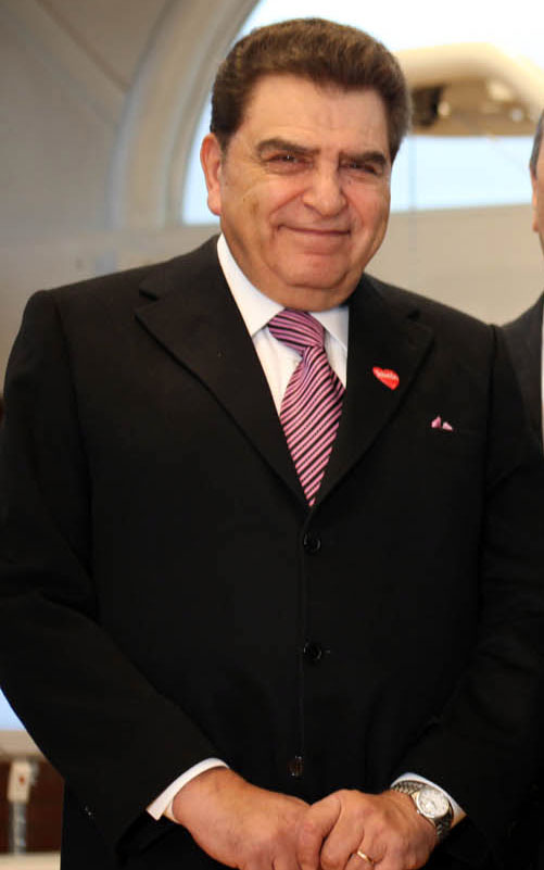 Don Francisco (b. December 28, 1940 in Curico, Chile) is the artistic name of Mario Luis Kreutzberger, a Chilean-American news anchor. He is best known for hosting the Sábado Gigante.